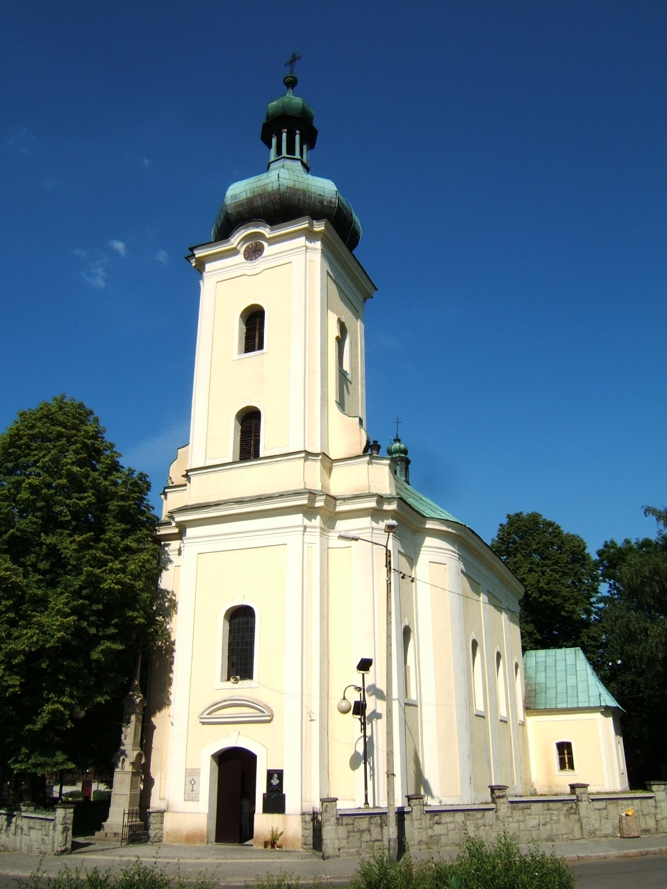 Sanctuary of Our Lady of Lourdes in Kochłowice, district of Ruda Śląska (Poland).